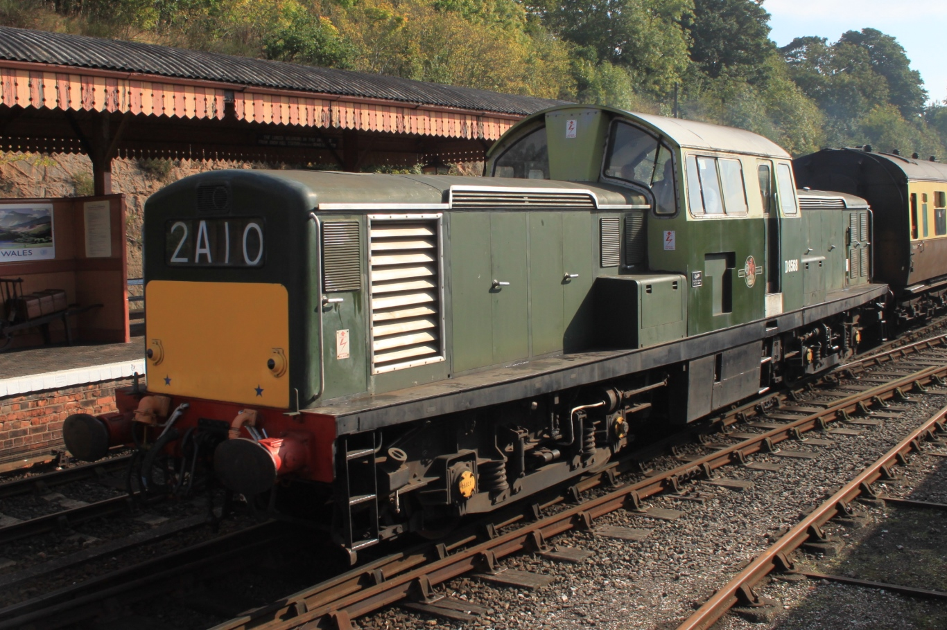 Just one of the Clayton Type 1 diesel-electric locomotives supplied to British Railways has survived into preservation. Normally based at Chinnor, D8568 made a rare visit to the Severn Valley Railway for their diesel gala in 2015.